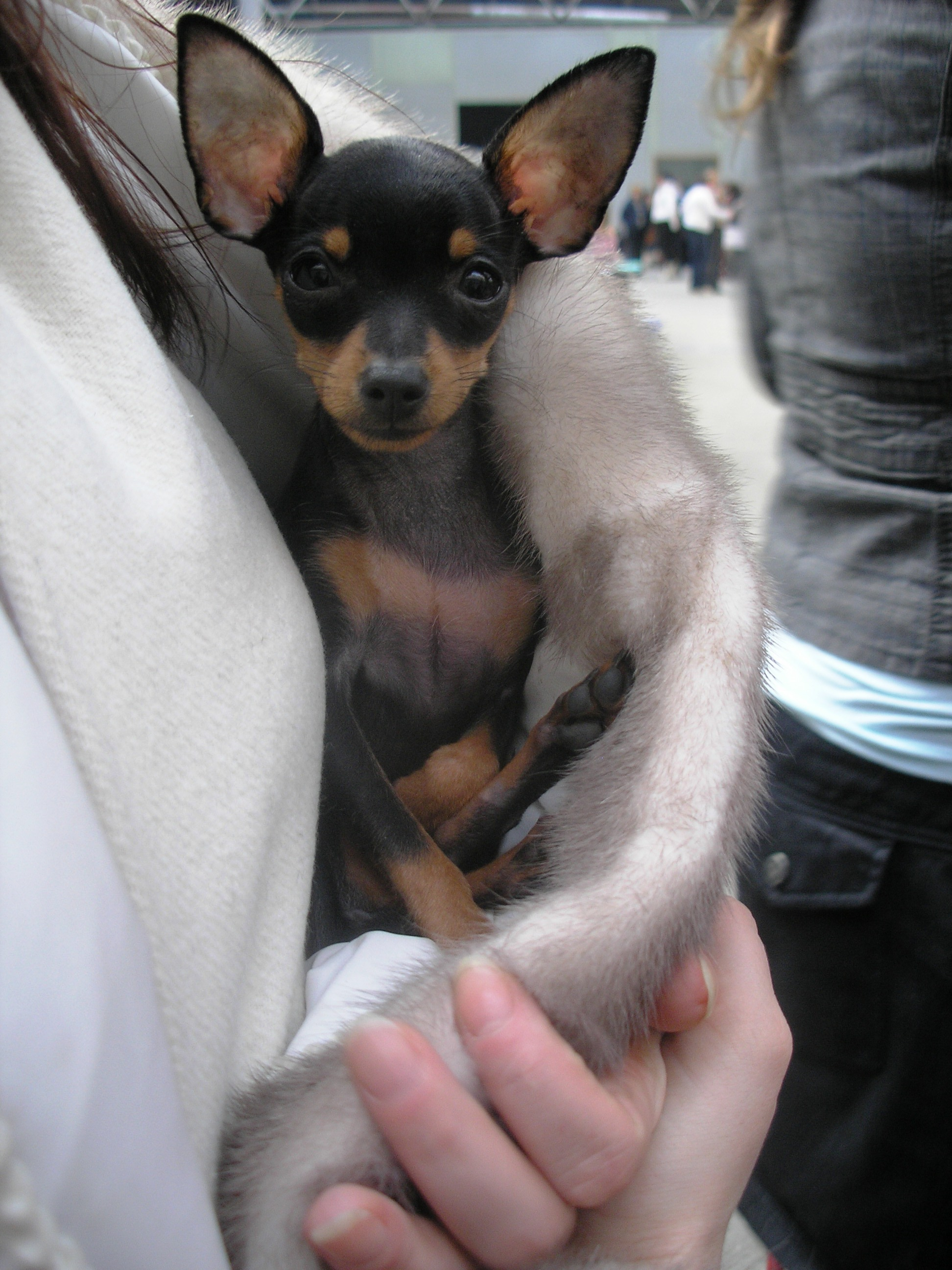 prazsky krysarik junior